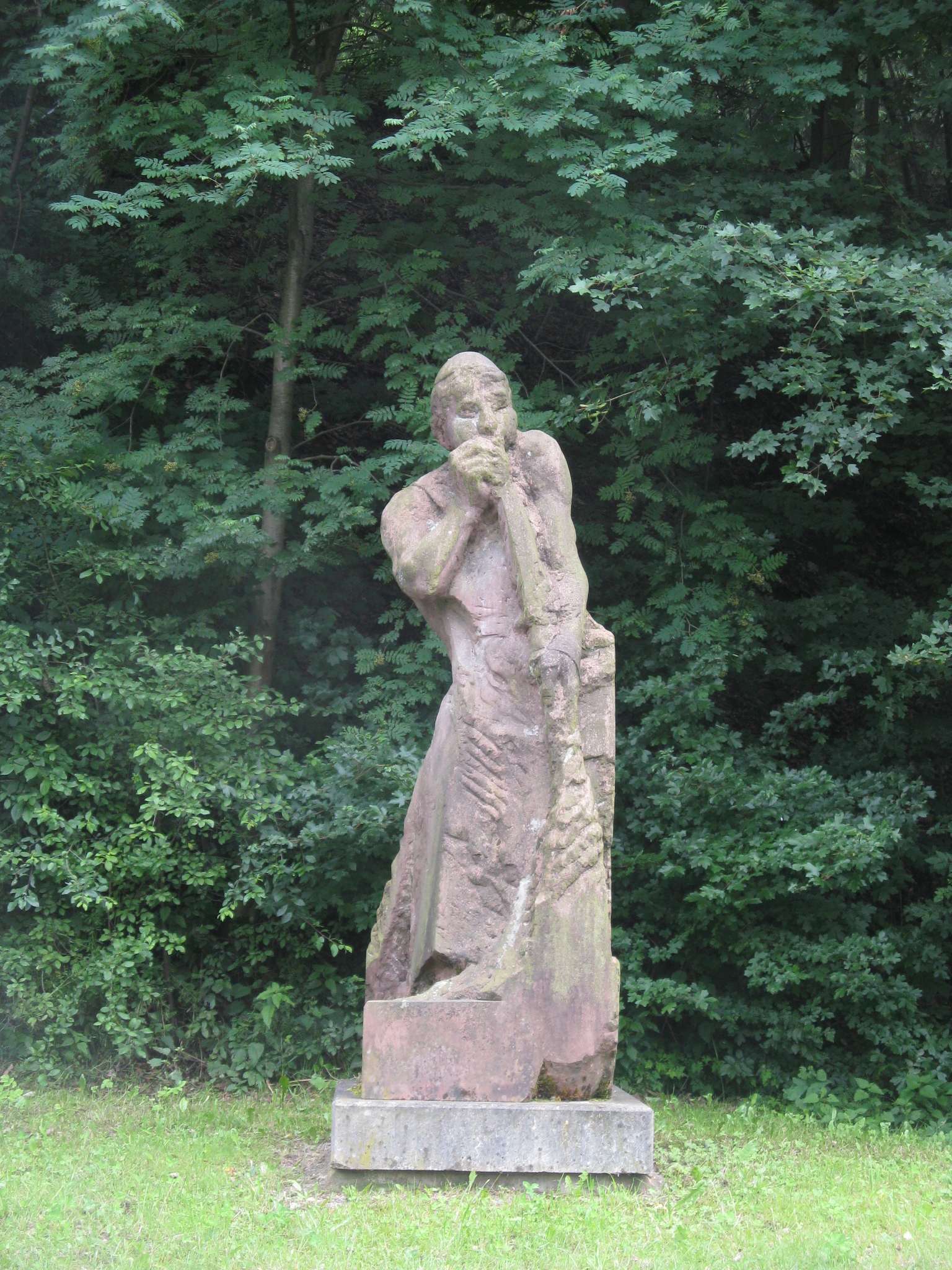 Heigenbrücken (Bavarian Spessart/Germany), glassblower sculpture